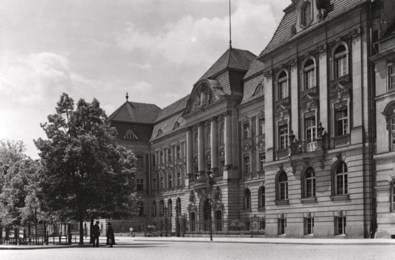 Title: Potsdam, Rechnungshof des Deutschen Reiches Factual corrections and alternative descriptions are encouraged separately from the original description. Additionally errors can be reported at this page to inform the Bundesarchiv. Original historic description: Potsdam, Rechnungshof des Deutschen Reiches, erbaut 1904/07